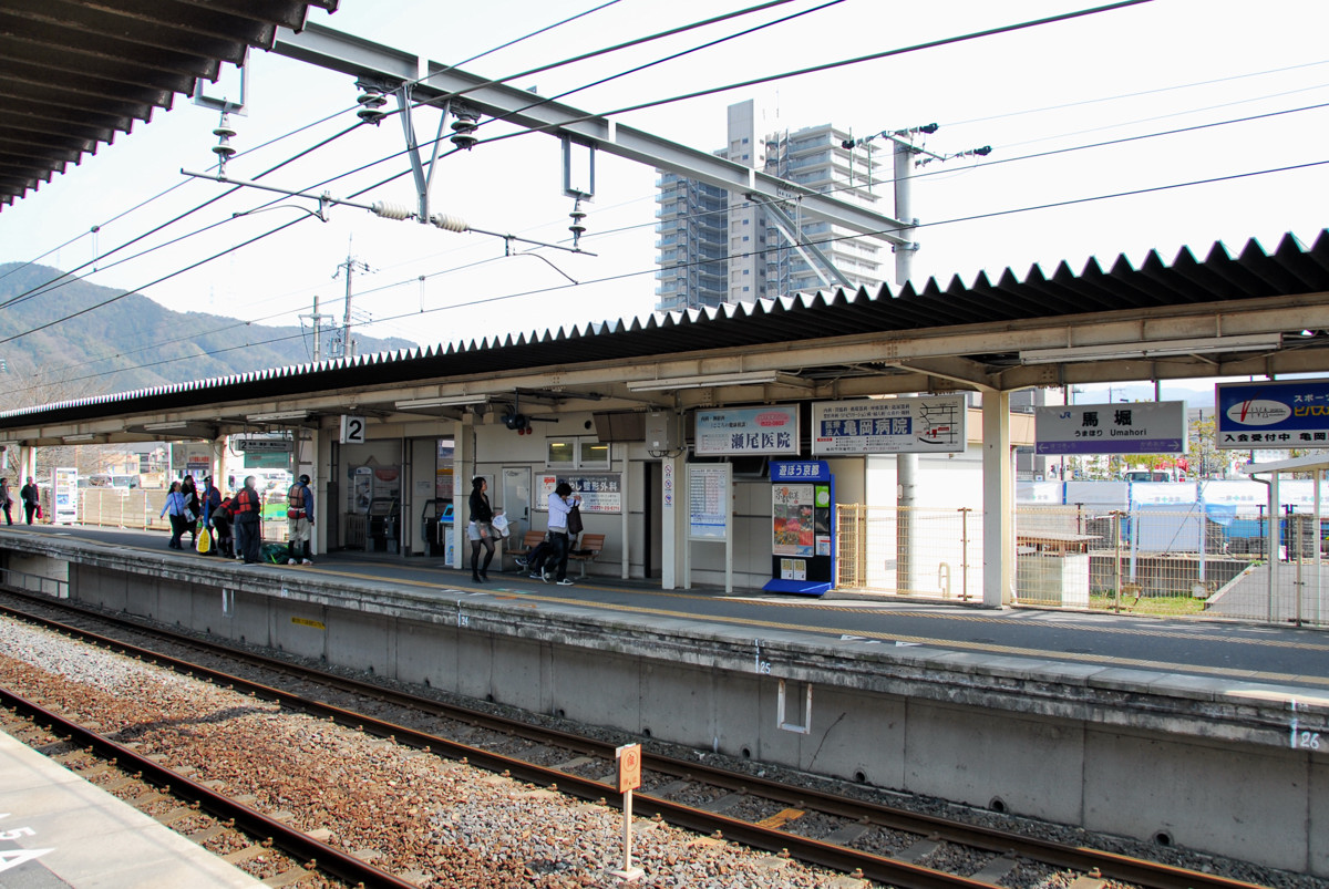 Platform area of JR Hokkaido Umahori Station